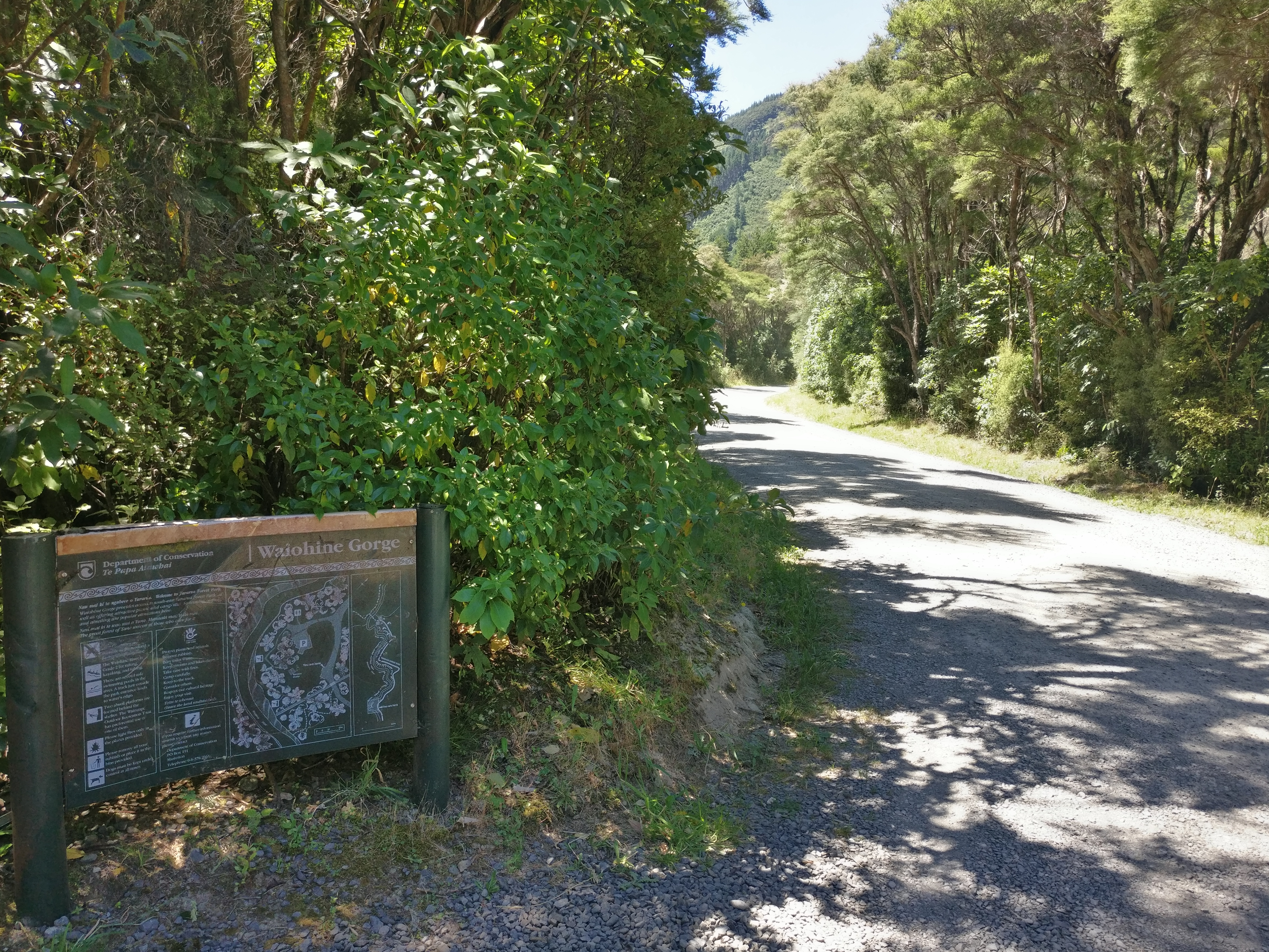 Map at entrance to the Waiohine Gorge campsite in New Zealand's Tararua Range showing amenities and facilities available.